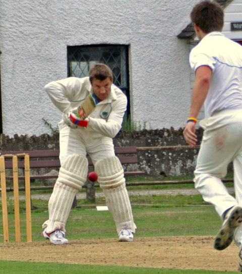 A village game in 2010. Josh Berry the bowler